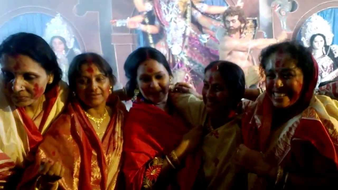 Sindoor Khela during Durga Puja in Agrani Samaj